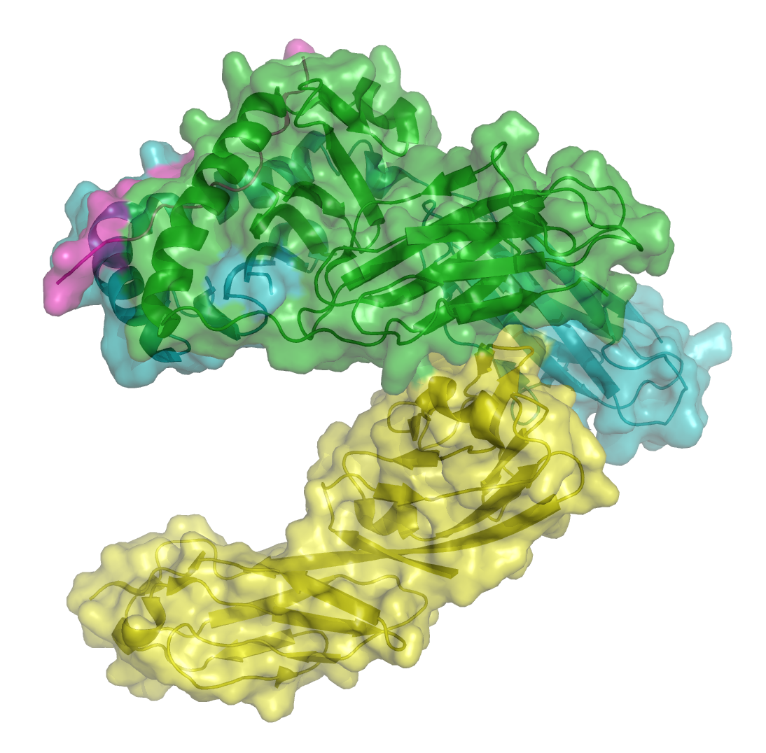 3d ribbon/surface model of CD4 receptor (yellow) complexed with a MHC II complex from PDB 1JL4. Ref.: J.H.Wang et al. (2001). Crystal structure of the human CD4 N-terminal two-domain fragment complexed to a class II MHC molecule.. Proc Natl Acad Sci U S A, 98, 10799-10804. PMID 11535811 [